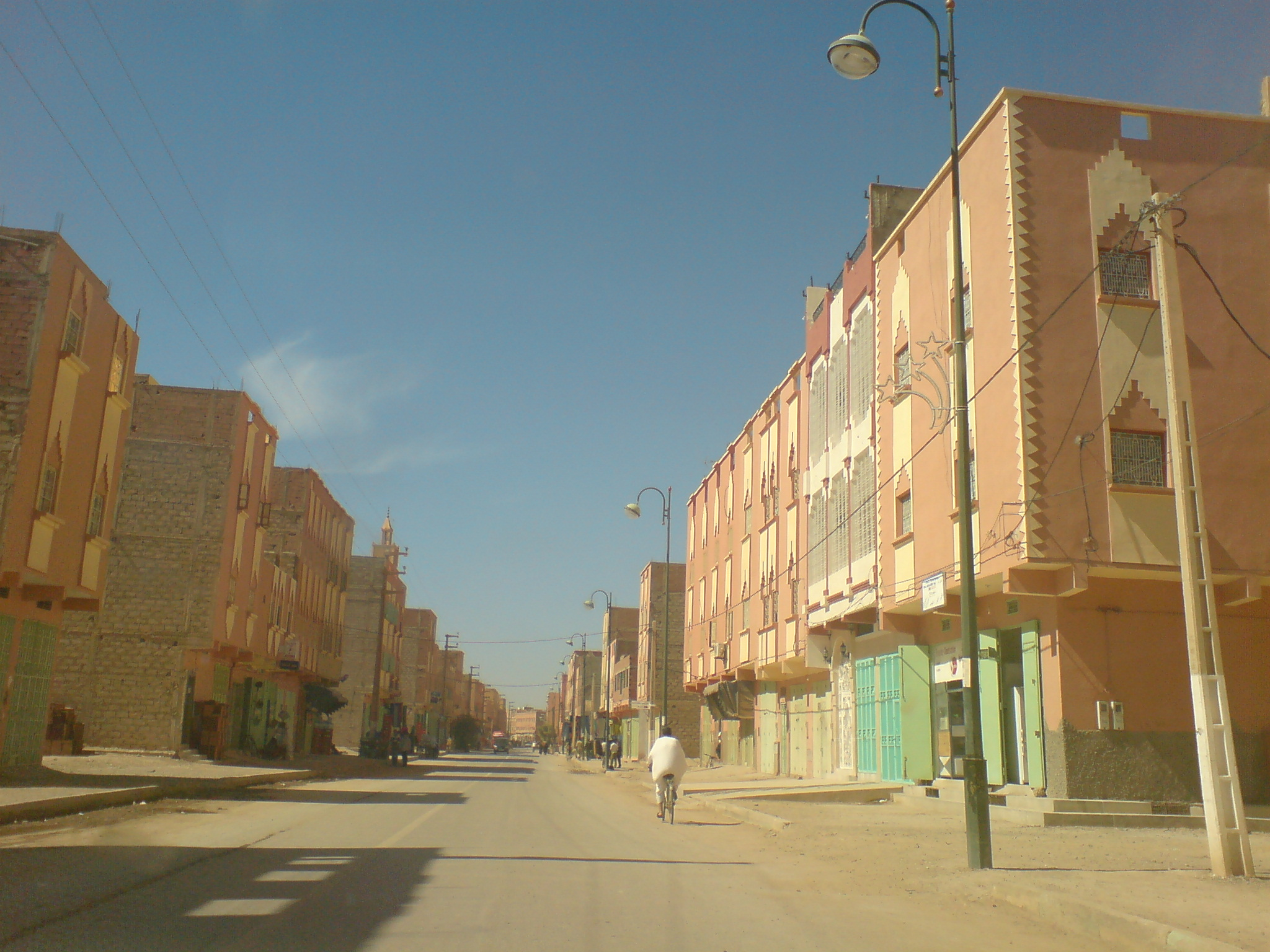 Rissani, Morocco